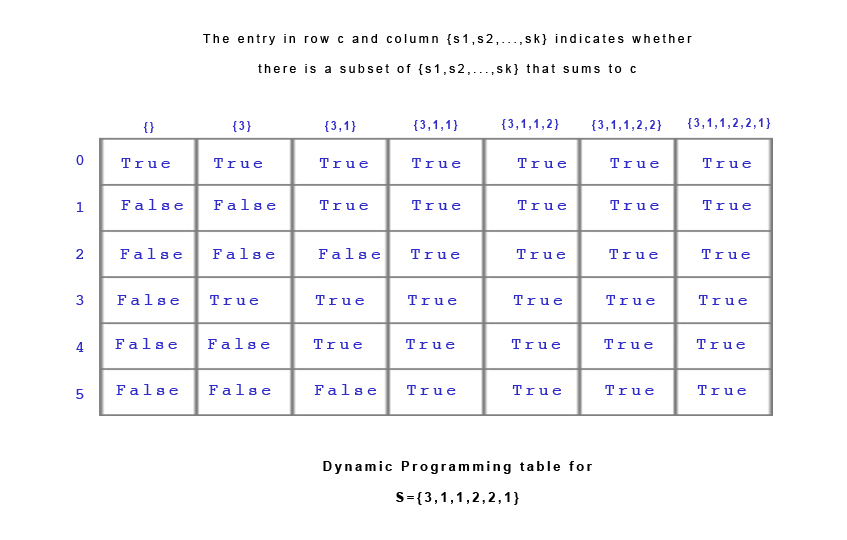 The dynamic programming table of a solution to the partition problem on an example input.